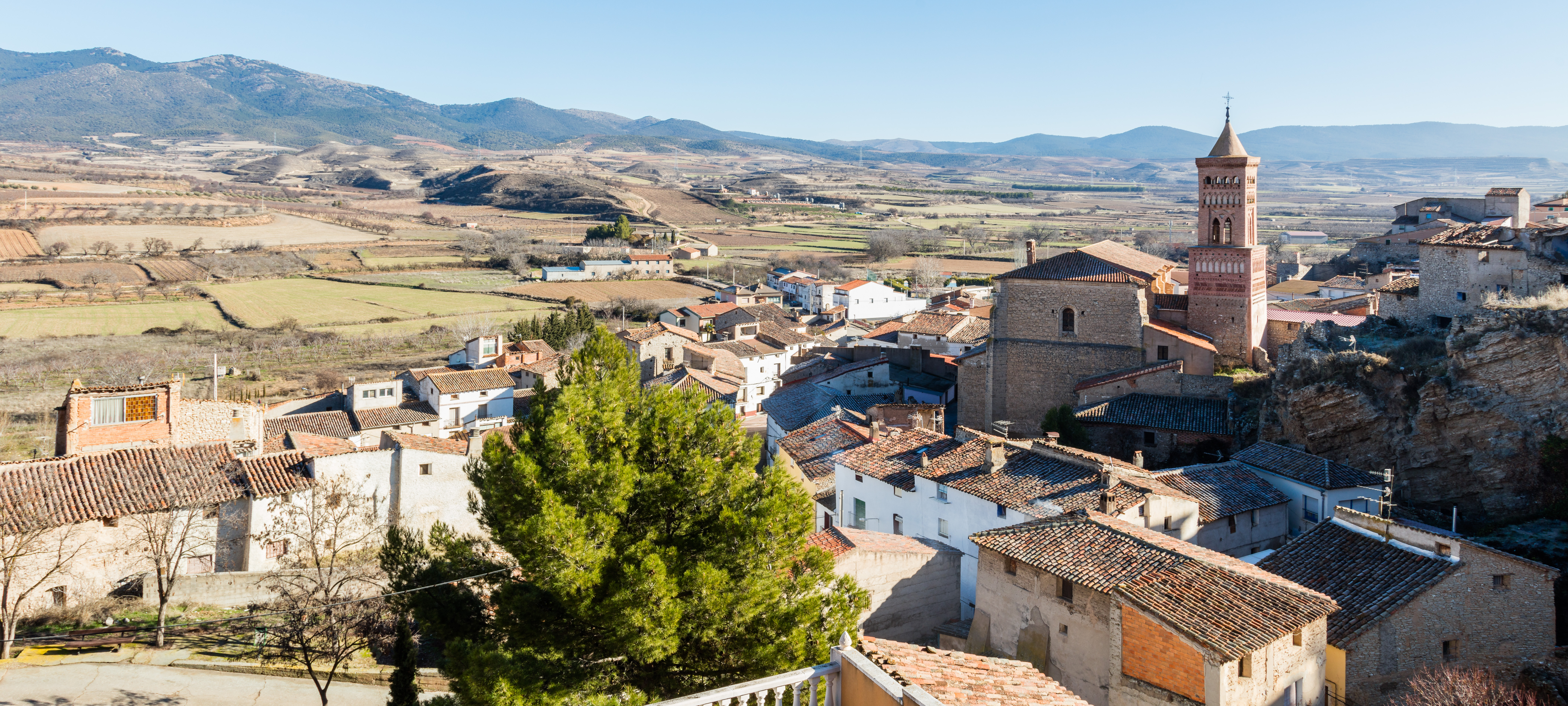 Belmonte de Gracián, Zaragoza, Spain